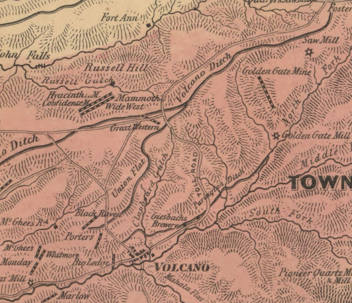 Excerpt of 1866 official map of Amador County California showing Fort Ann and Volcano.